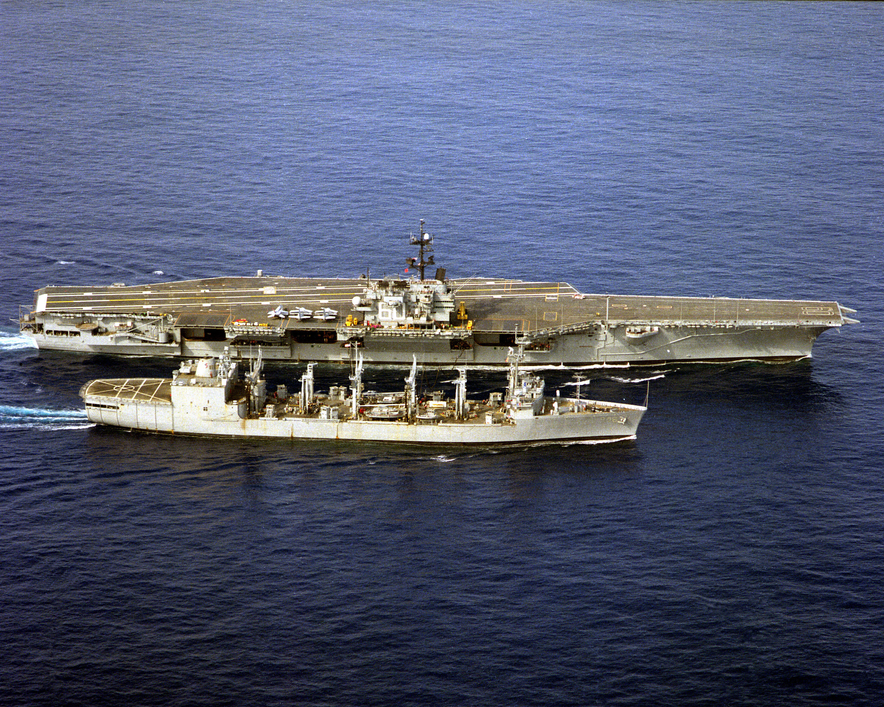 A starboard beam view of the U.S. Navy replenishment oiler USS Kalamazoo (AOR-6) conducting an underway replenishment with the aircraft carrier USS Saratoga (CV-60) in the Atlantic Ocean on 26 June 1993.